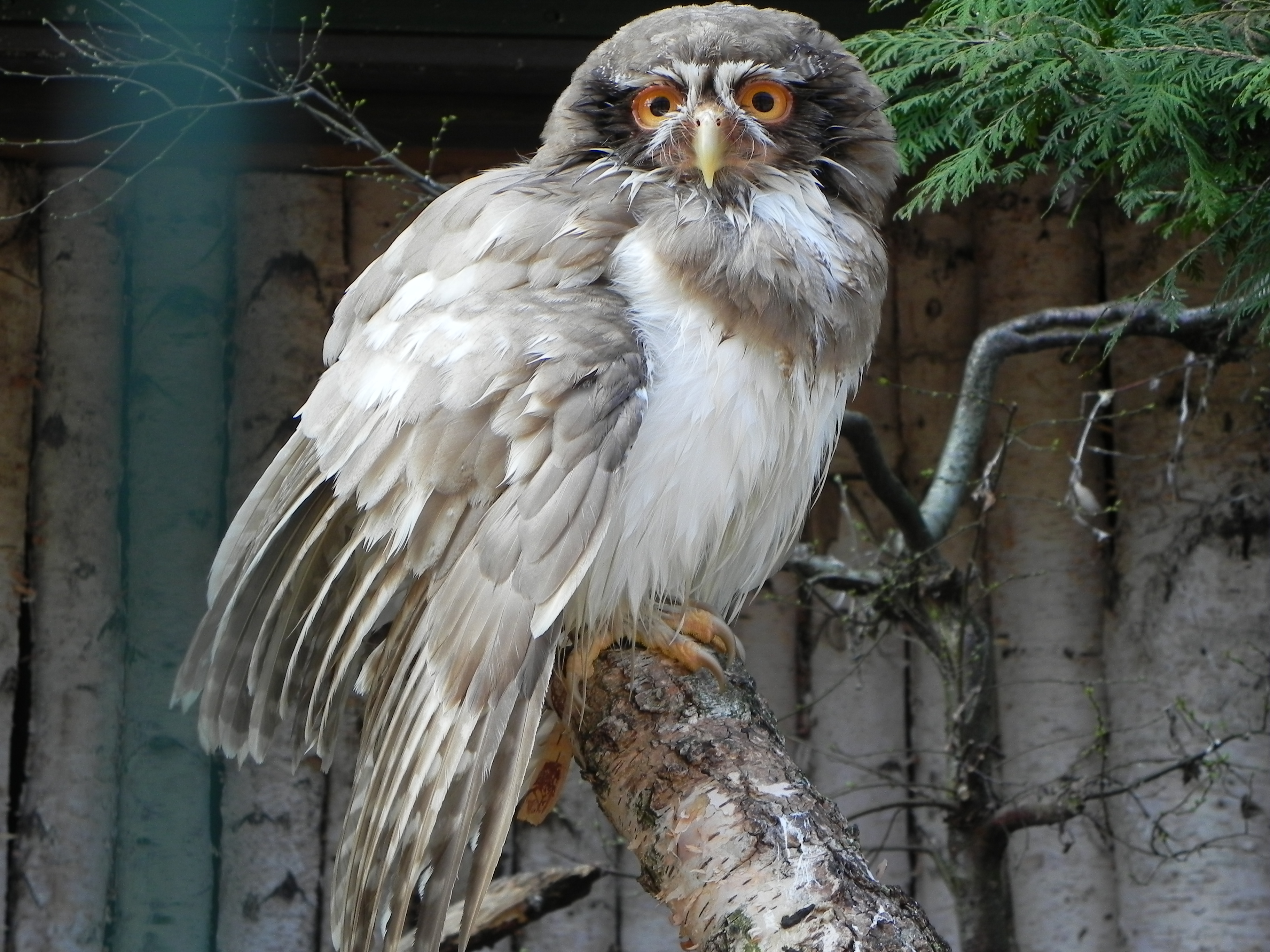 Spectacled Owl (Pulsatrix perspicillata) at Weltvogelpark Walsrode (Walsrode Bird Park, Germany